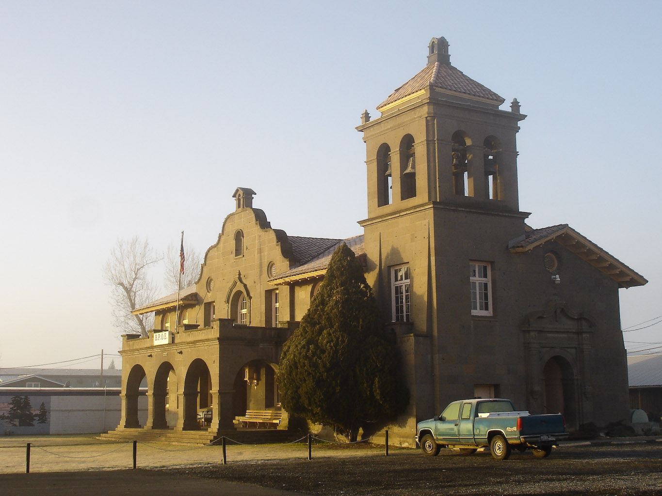 The NRHP-listed Nevada-California-Oregon Railway Co. General Office Building, also known as the N.C.O. Building. Now an Elk's lodge.